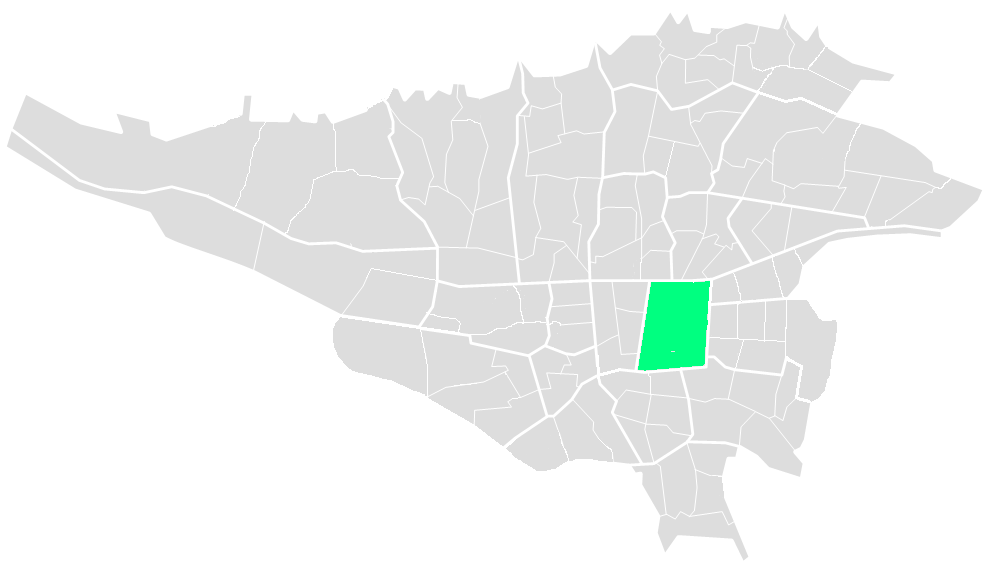 Region 12 of Tehran